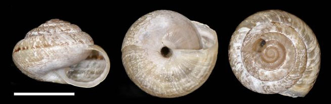 Composition of the 3 main views of the shell of Xeroplexa ponsulensis. Locality: Pias. Zamora (Spain).